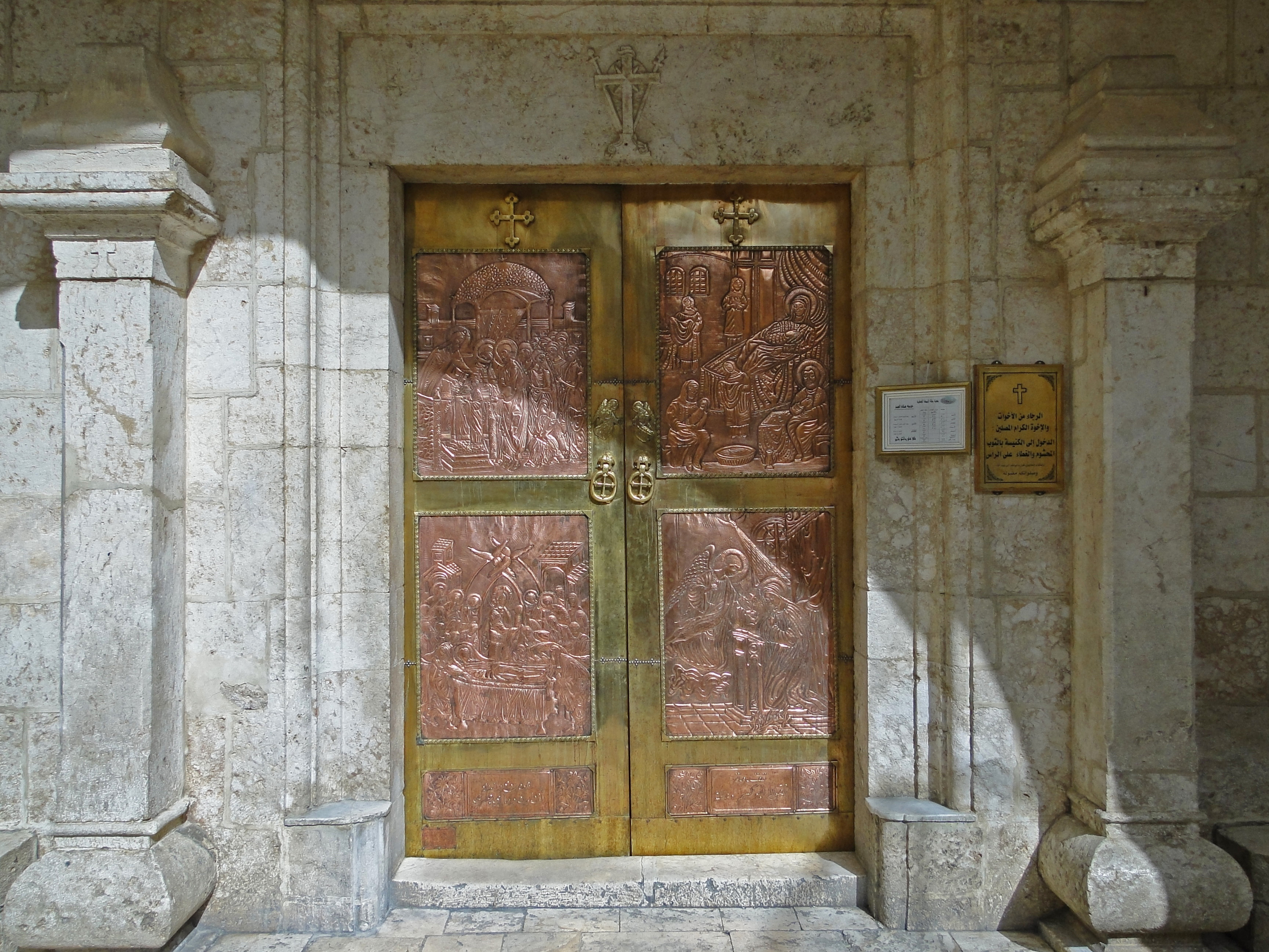 Doors of the chapel of the Convent of Our Lady of Saidnaya, Saidnaya, Syria